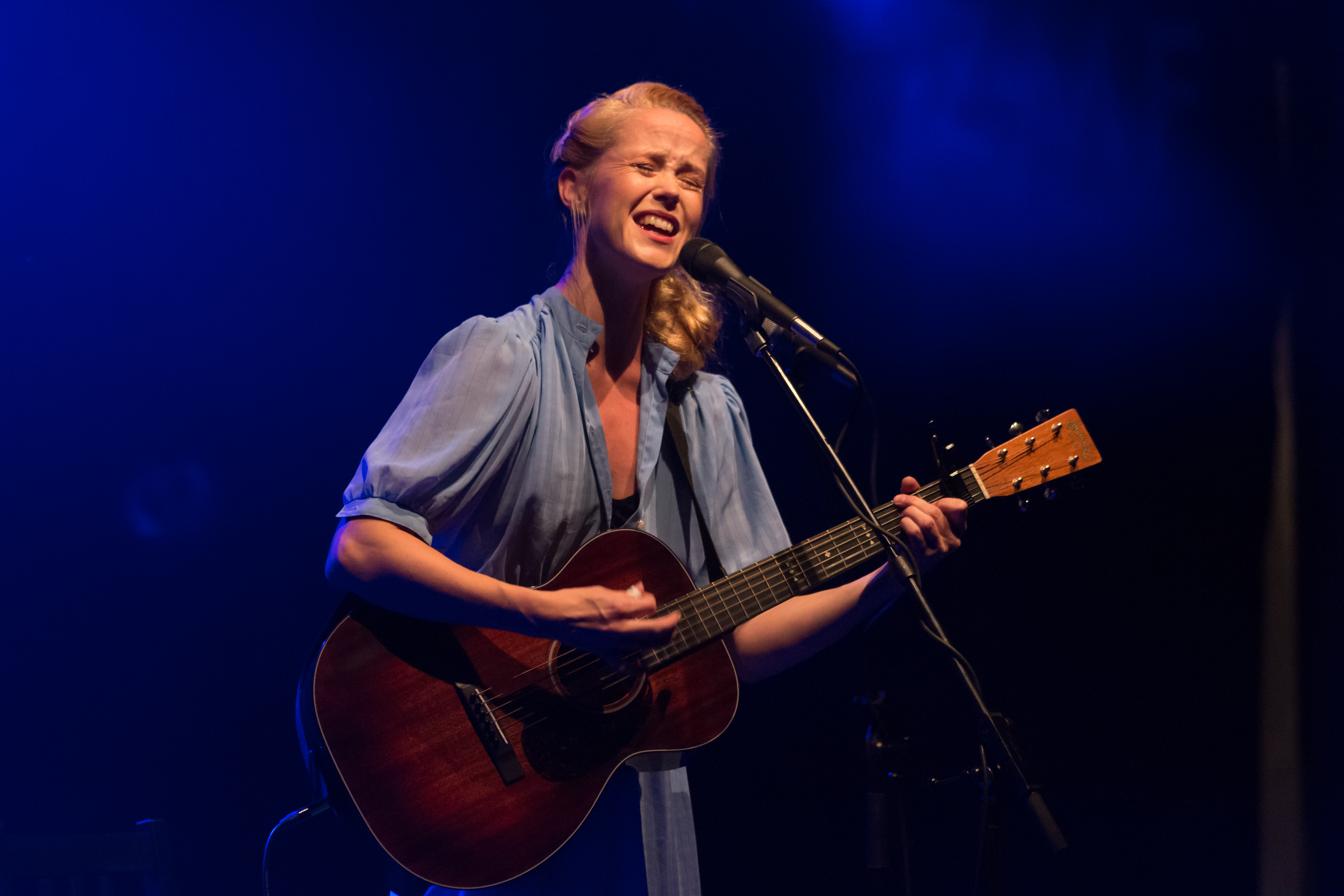 Tina Dico performing at the ZMF Freiburg on July 2nd, 2015.